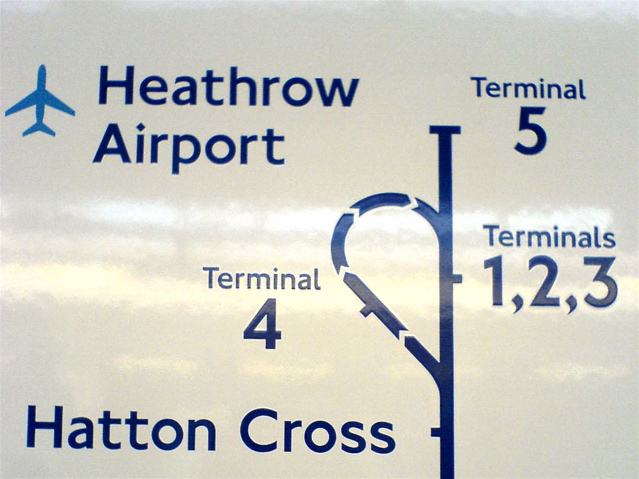 A diagram of the London Underground Piccadilly Line at Heathrow Airport, including the Terminal 5 extension, open 2008. Photo of a sign at Ealing Common station.